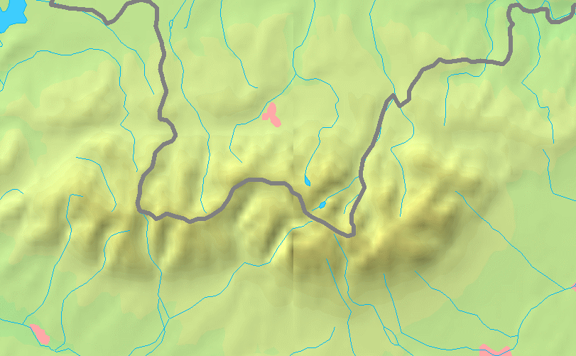 Map of the Tatra Mountains